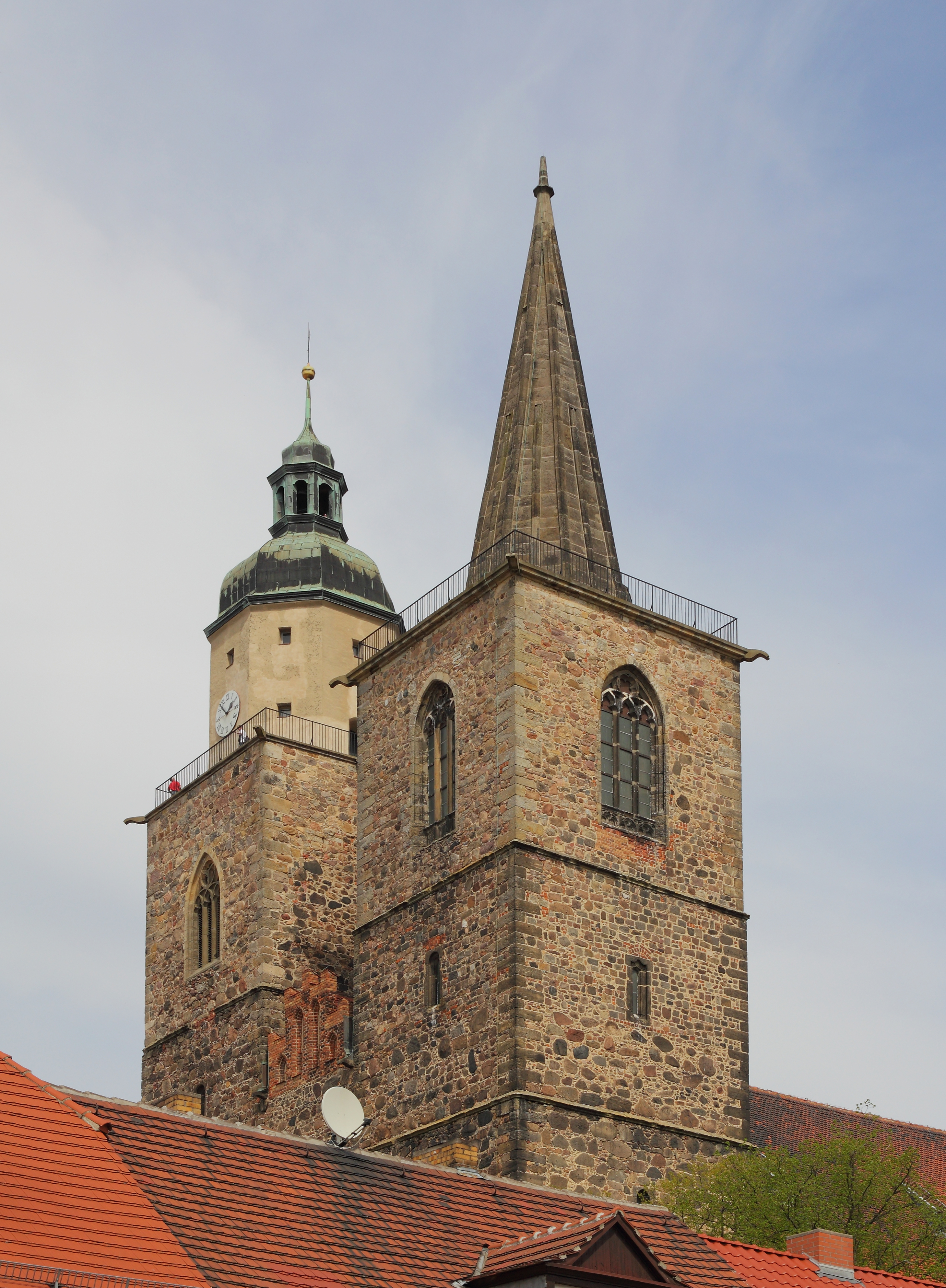 St. Nicholas Church in Jüterbog, Brandenburg, Germany